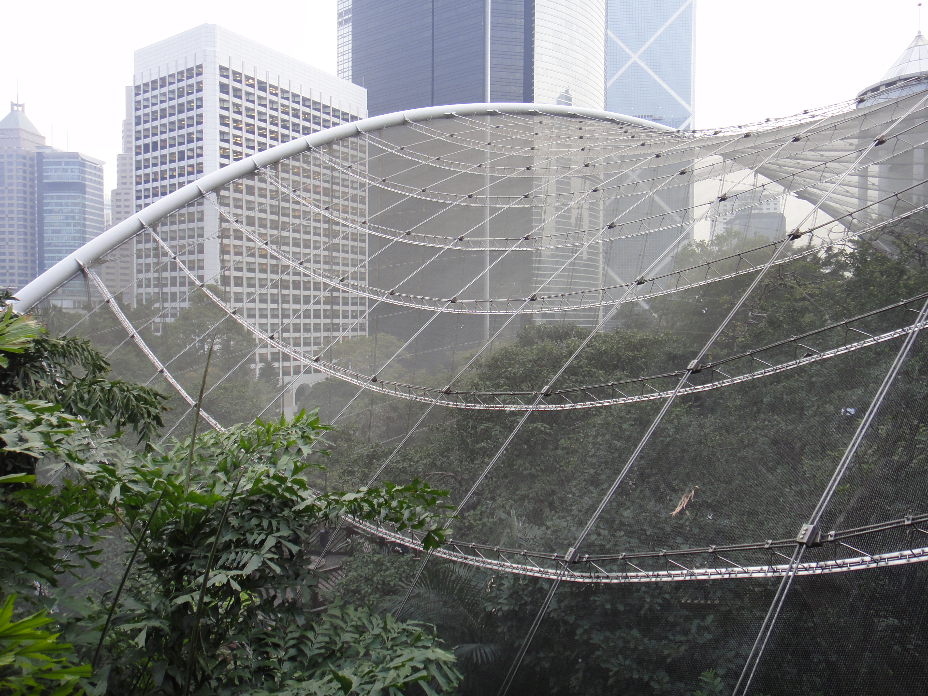 Edward Youde Aviary Images